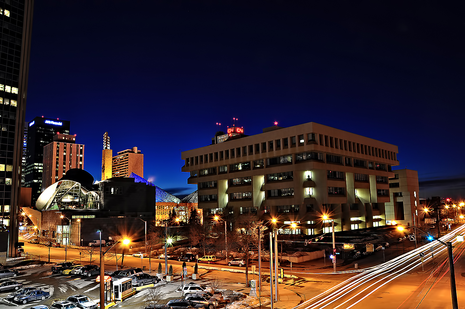 Darren & I got up on the roof of the Wentworth building to get a different perspective of things. It was really kinda neat! Exposure 21.9 Aperture f/22.0 Focal Length 18 mm